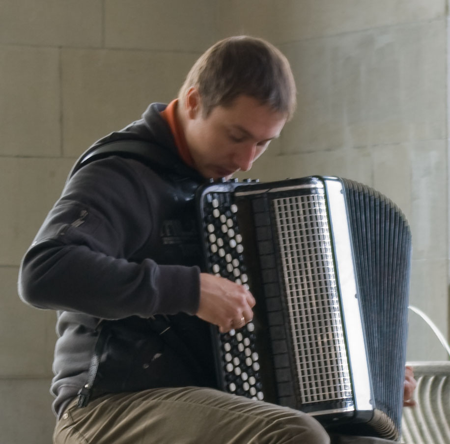 Pavel Runov as streetartist in the entrancehall of Helmhaus in Zurich (Switzerland)